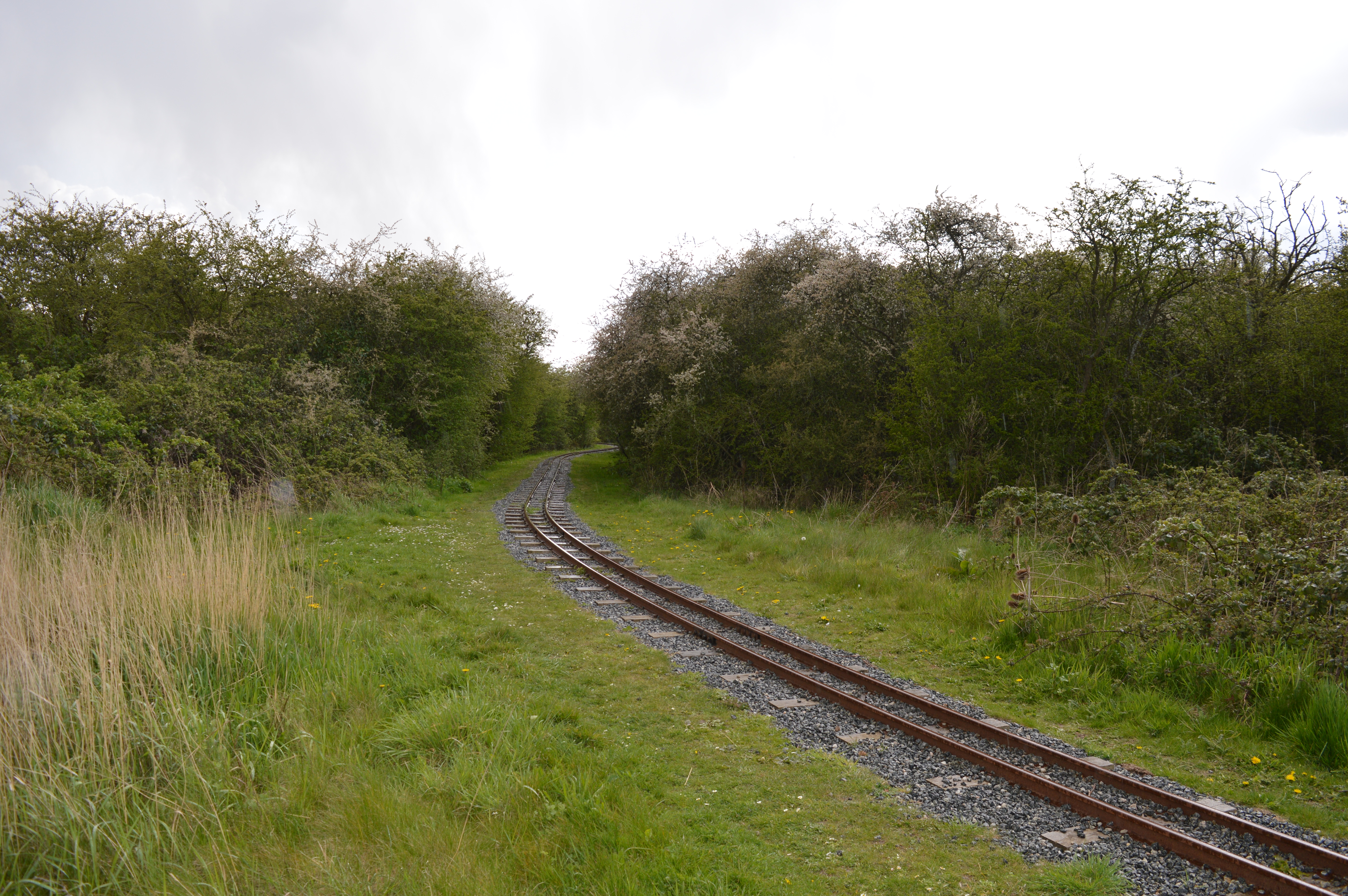 Wat Tyler Country Park is a country park in Pitsea, Essex and part of the Pitsea Marsh Site of Special Scientific Interest